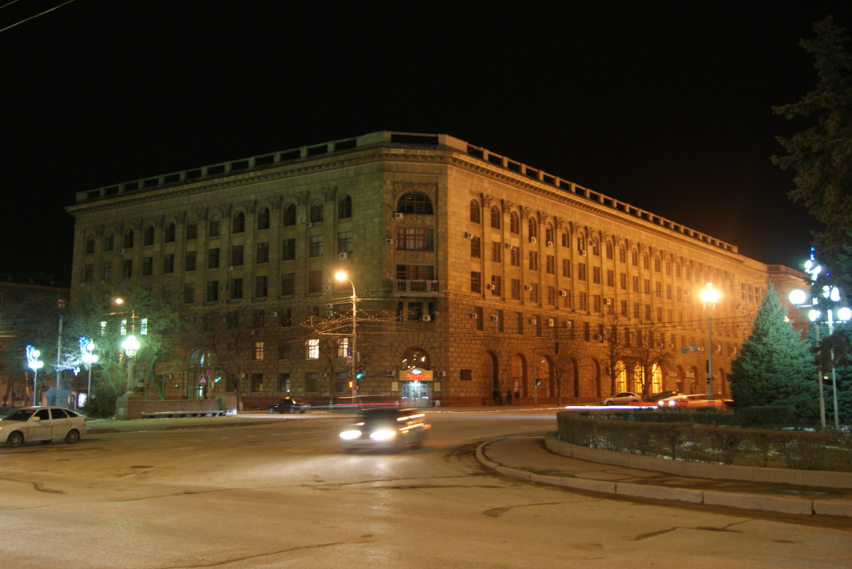 The Volgograd State Medical University